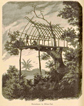 A large treehouse at Milne Bay - Papua New Guinea - 1884-1885, under construction with framing for roof. Accessed via the World Digital Library